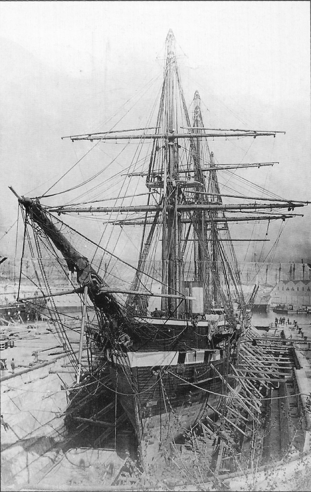 Imperial Russian frigate Aleksandr Nevskiy.